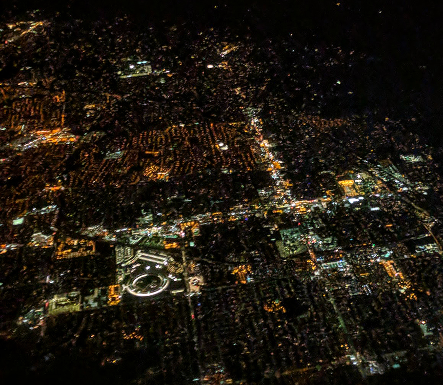 Night aerial view of the newly opened Apple Park and vicinity in Cupertino, California.